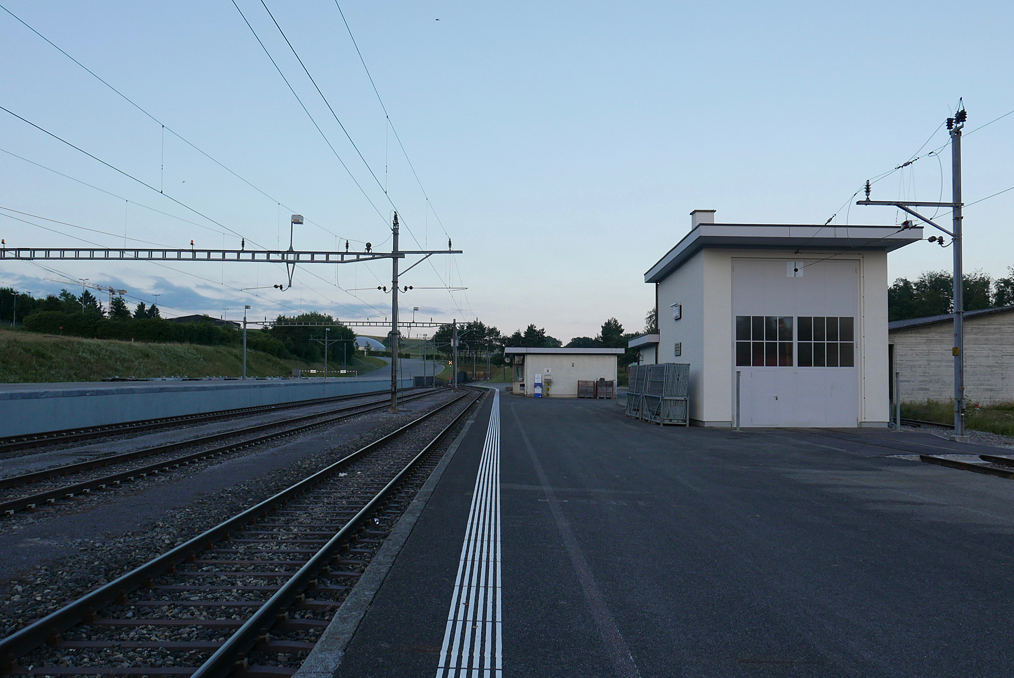 Bure-Casernes train station.